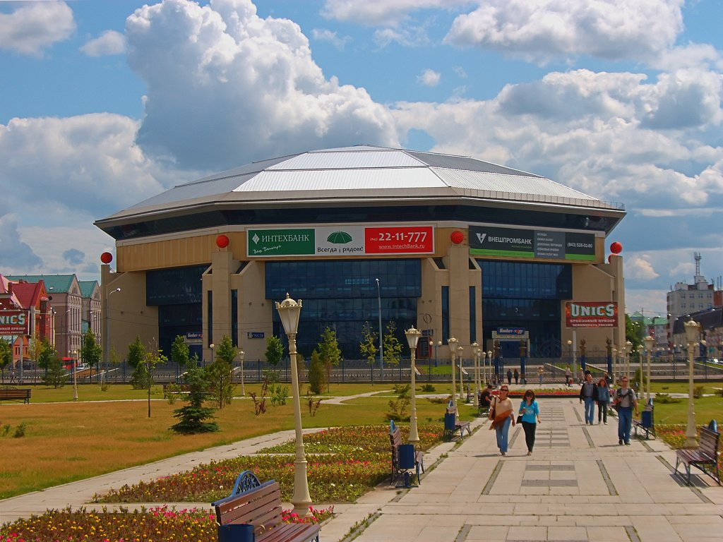 Basket-Hall Arena of Kazan city